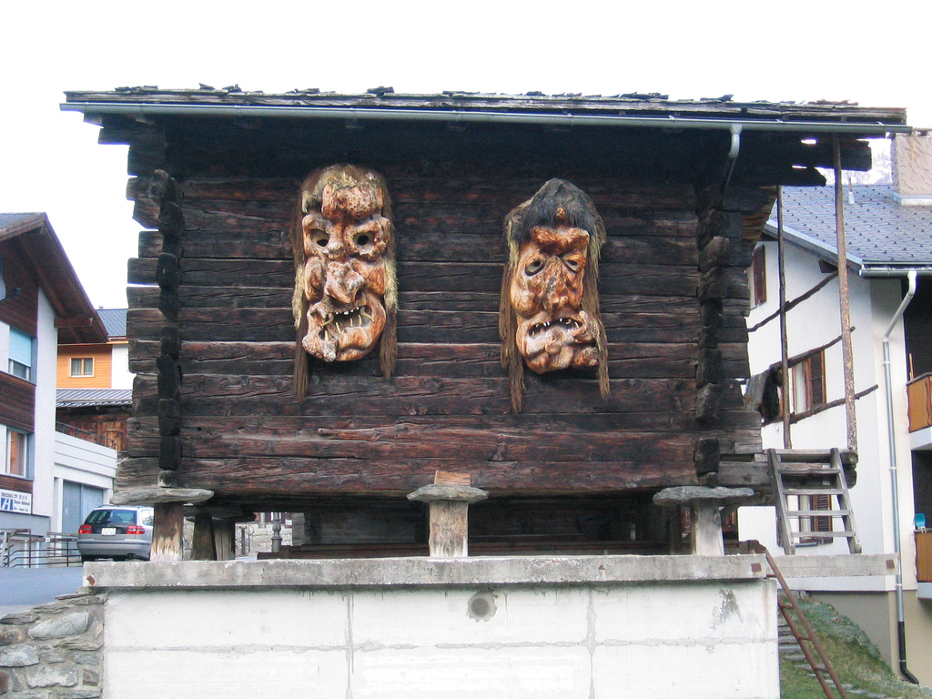 Tschäggättä larvae (masks) in the Lötschental